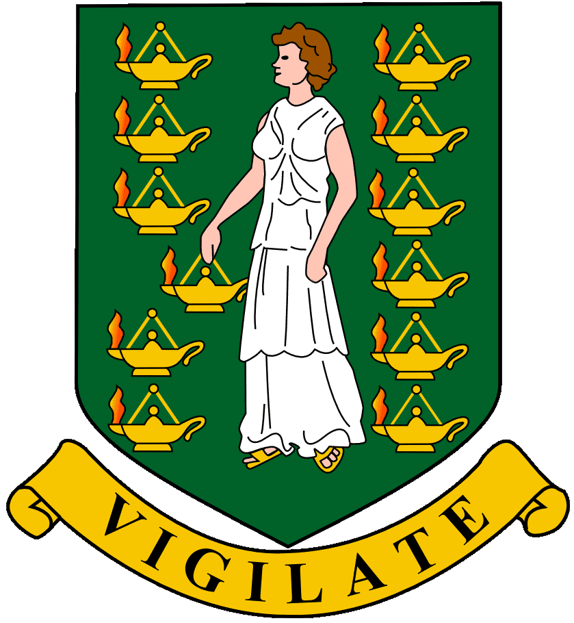 The coat of arms of the British Virgin Islands.